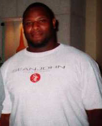 If used somewhere other than Wikipedia, Nelson, by name.